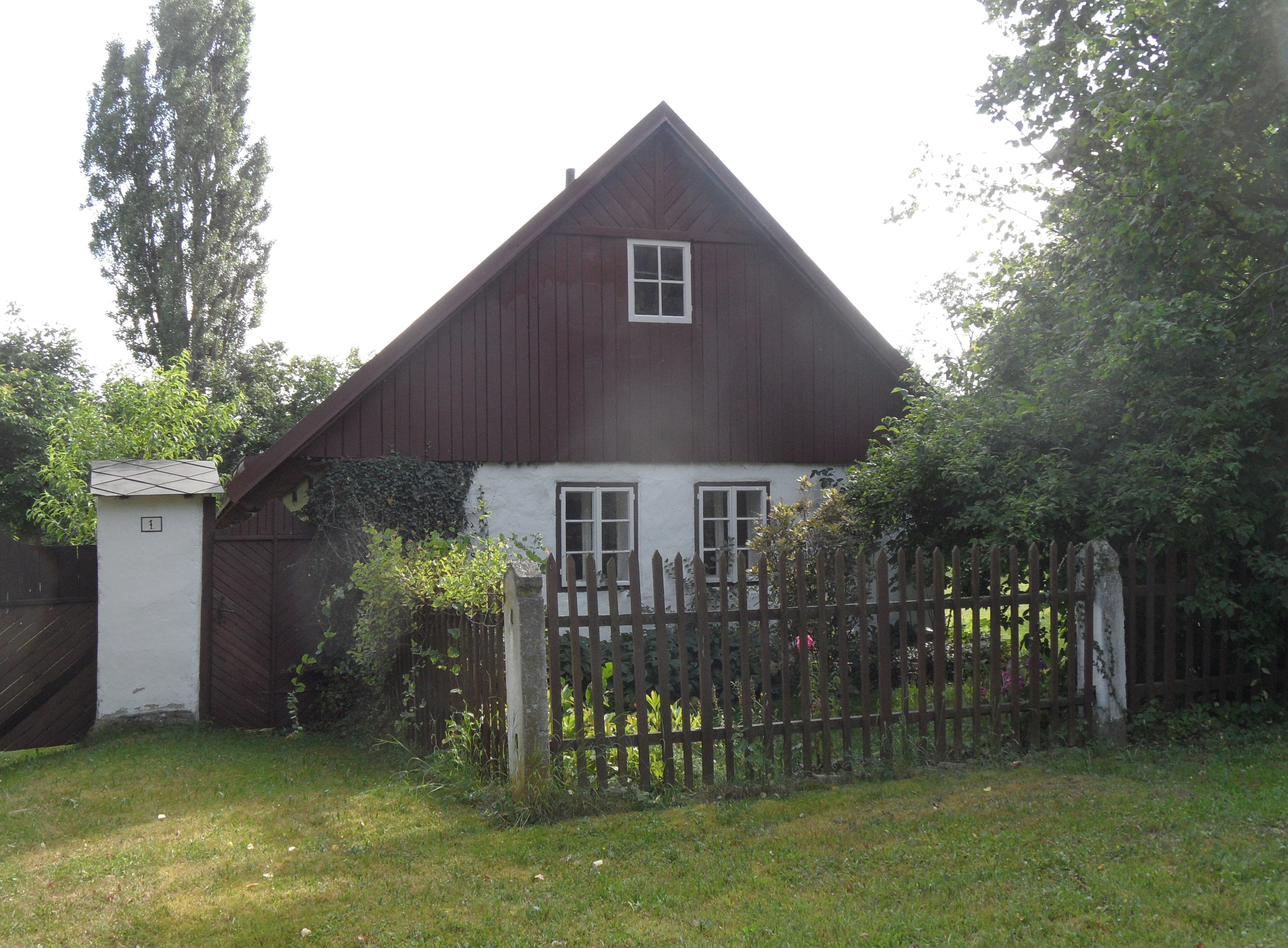 Polánka_(Malešov) A. Farmer's House No. 1, Kutná Hora District, the Czech Republic.